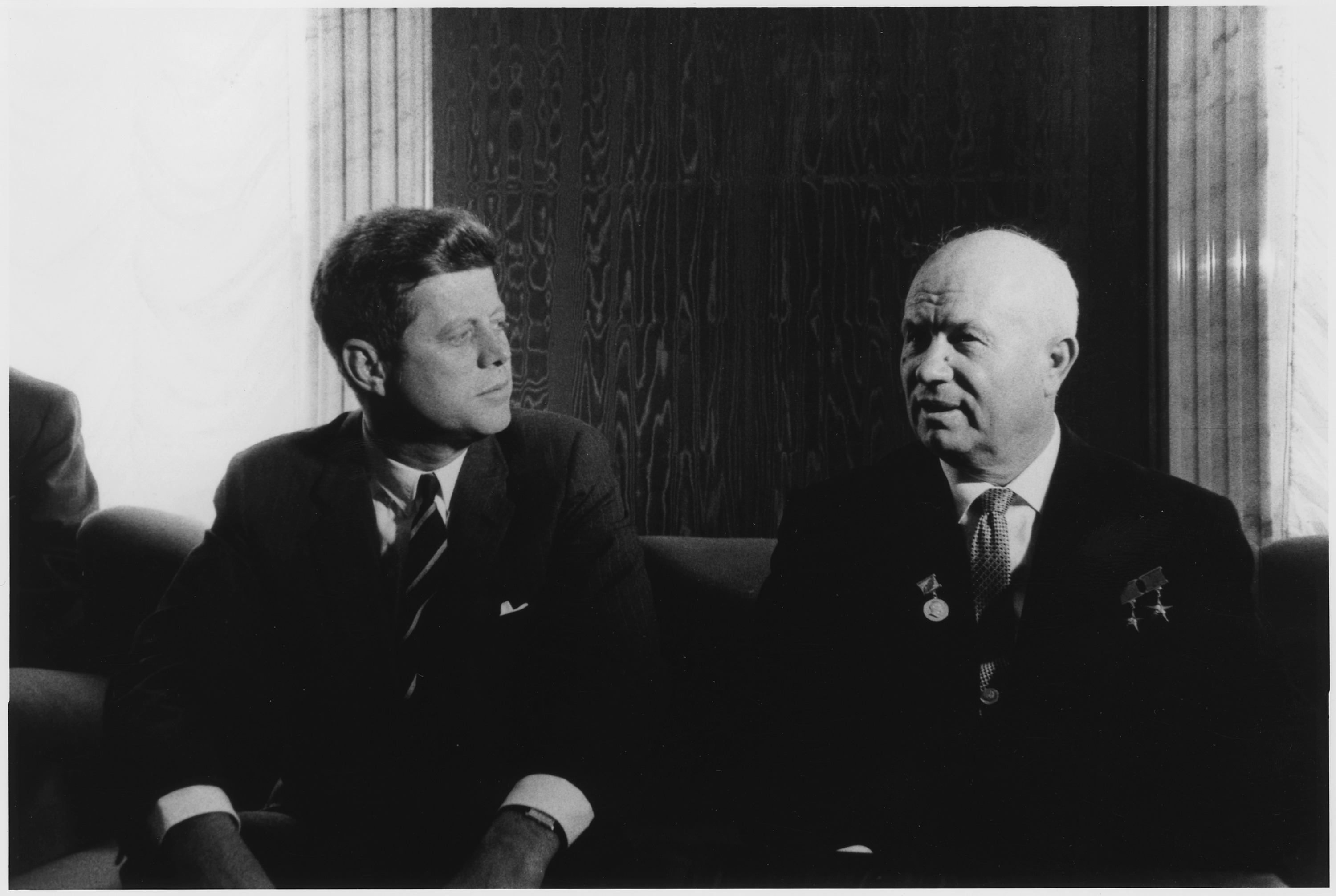 Scope and content: Photograph of President John F. Kennedy and Chairman Nikita Khrushchev during their meeting in Vienna, Austria.